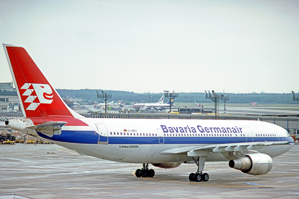 Airbus A300B4 D-AMAX of Bavaria Germanair at Frankfurt Airport in June 1977